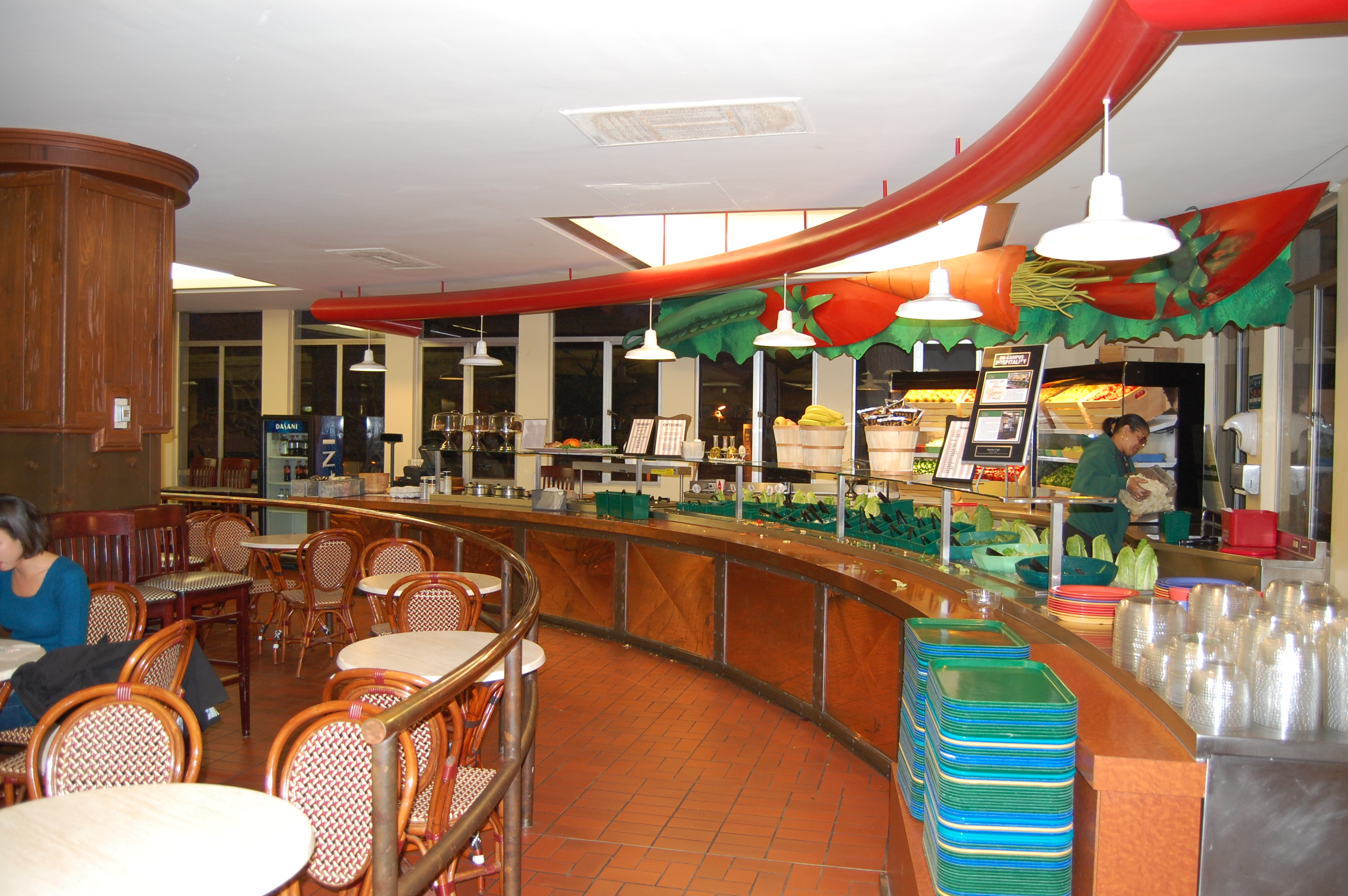 Salad Bar in USF's Market Cafe